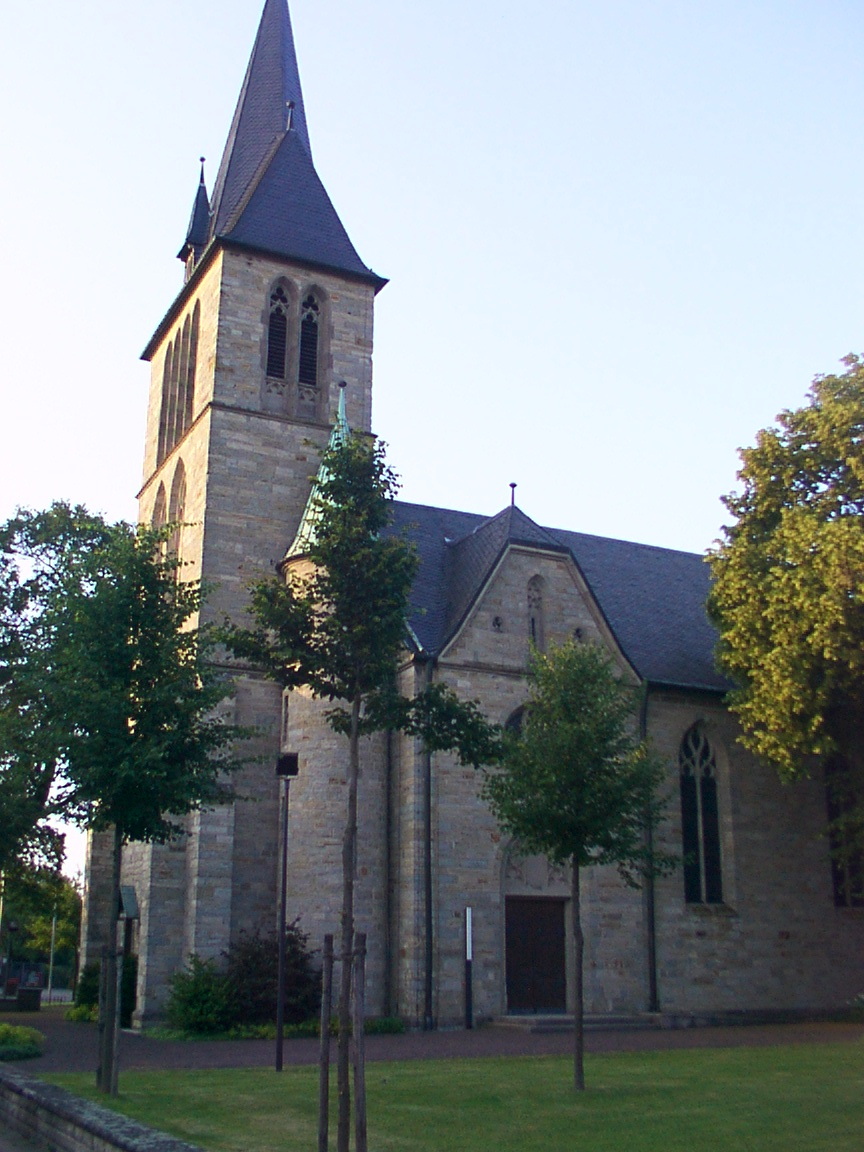 Salzkotten: Katholische Kirche Sankt Petrus und Paulus in Scharmede This is a photograph of an architectural monument.